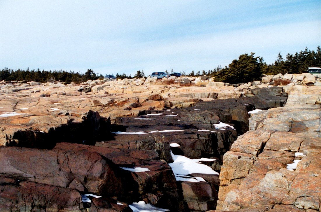 Black dike formed by ancient lava flows on Schoodic Head, Schoodic Peninsula, Maine, USA